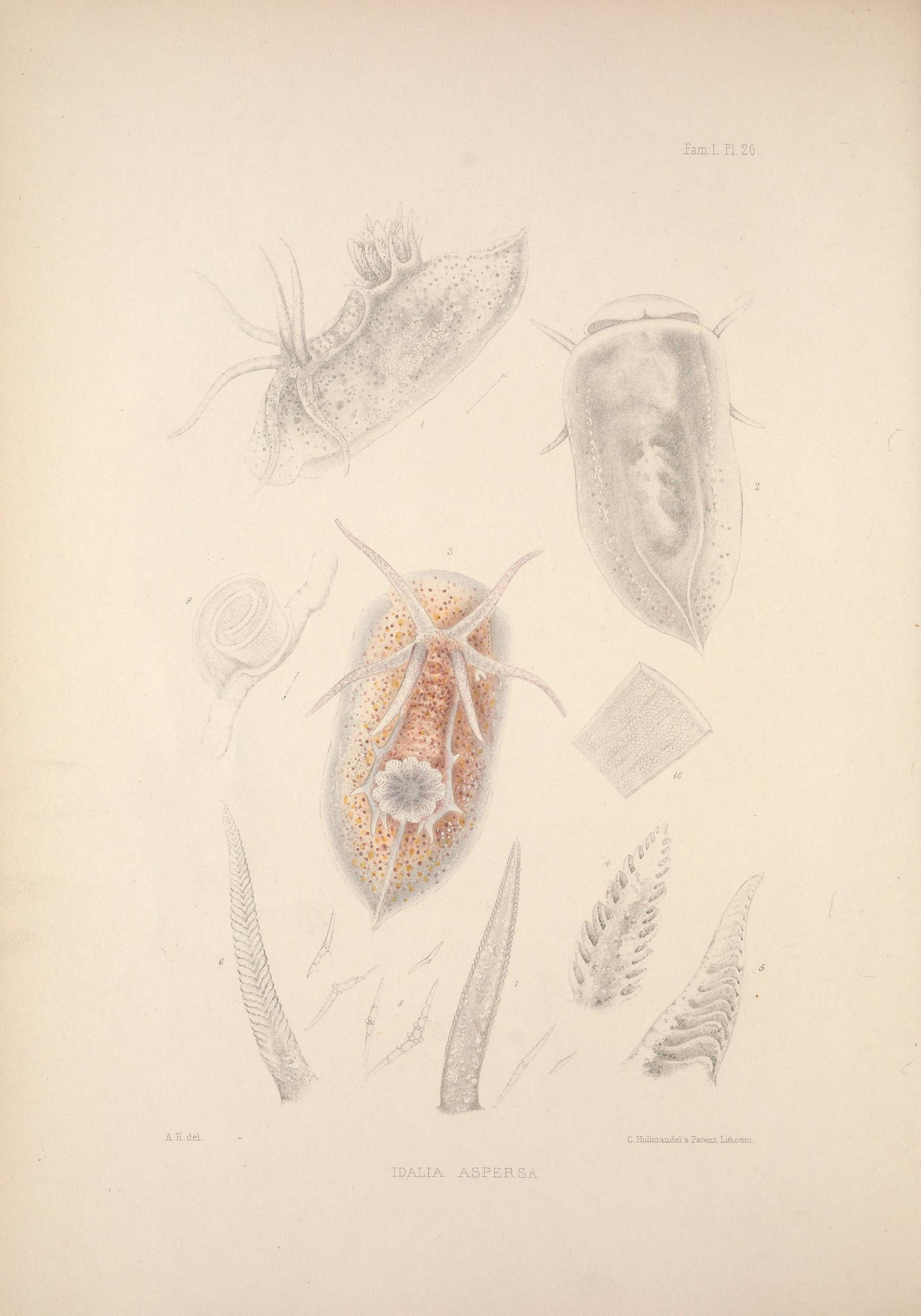 Alder J. & Hancock A. (1845-1855). A monograph of the British nudibranchiate Mollusca: with figures of all the species. The Ray Society, London. Published in 8 parts:Part 1 Fam. 1 Plate 26 [1845] Idalia aspersa Alder & Hancock, 1845 synonym Okenia aspersa (Alder & Hancock, 1845) accepted name